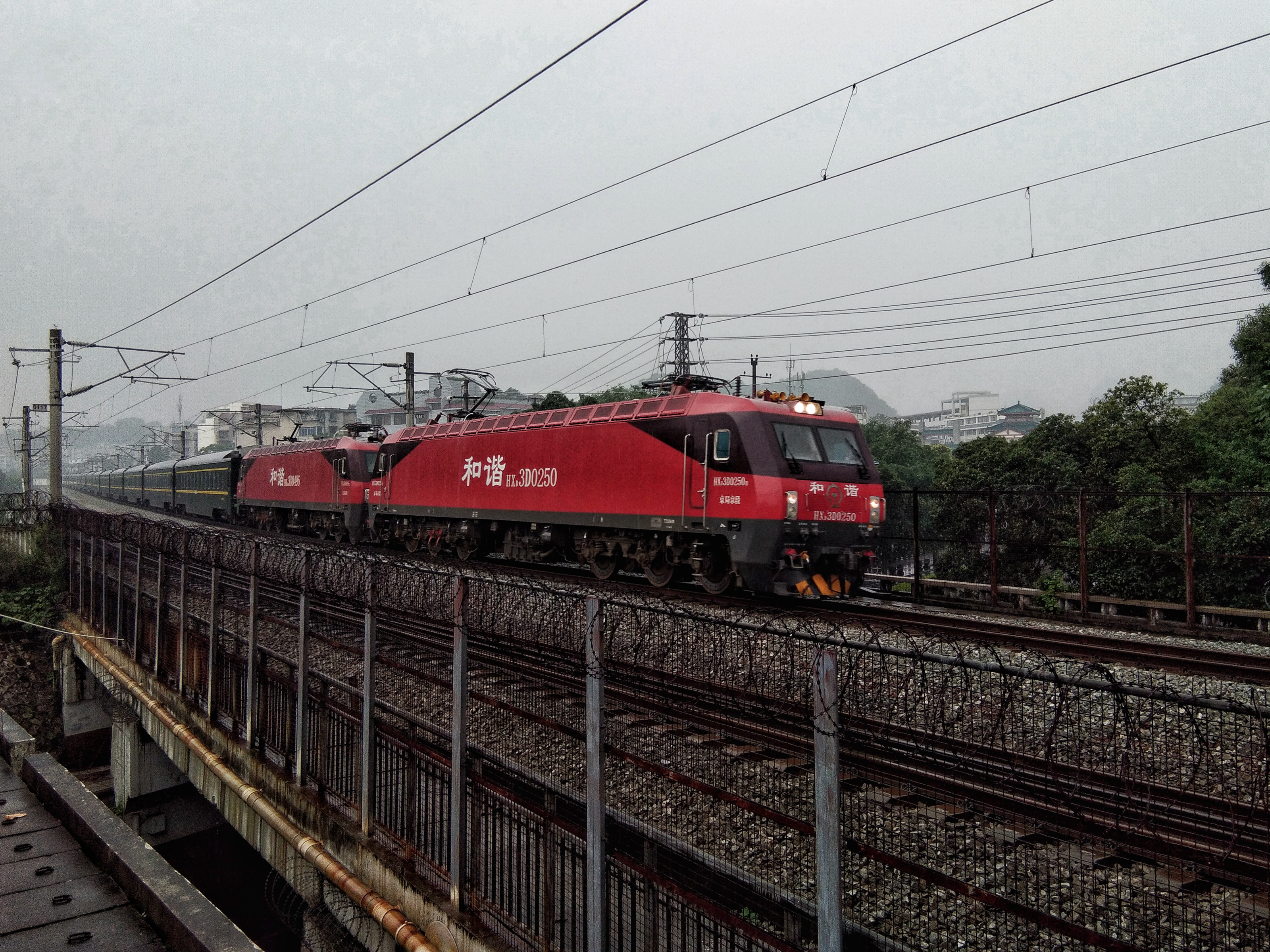 HXD3D 0250 & HXD3D 0496 are double-heading haul Z6 Train to Beijingxi Railway Station.